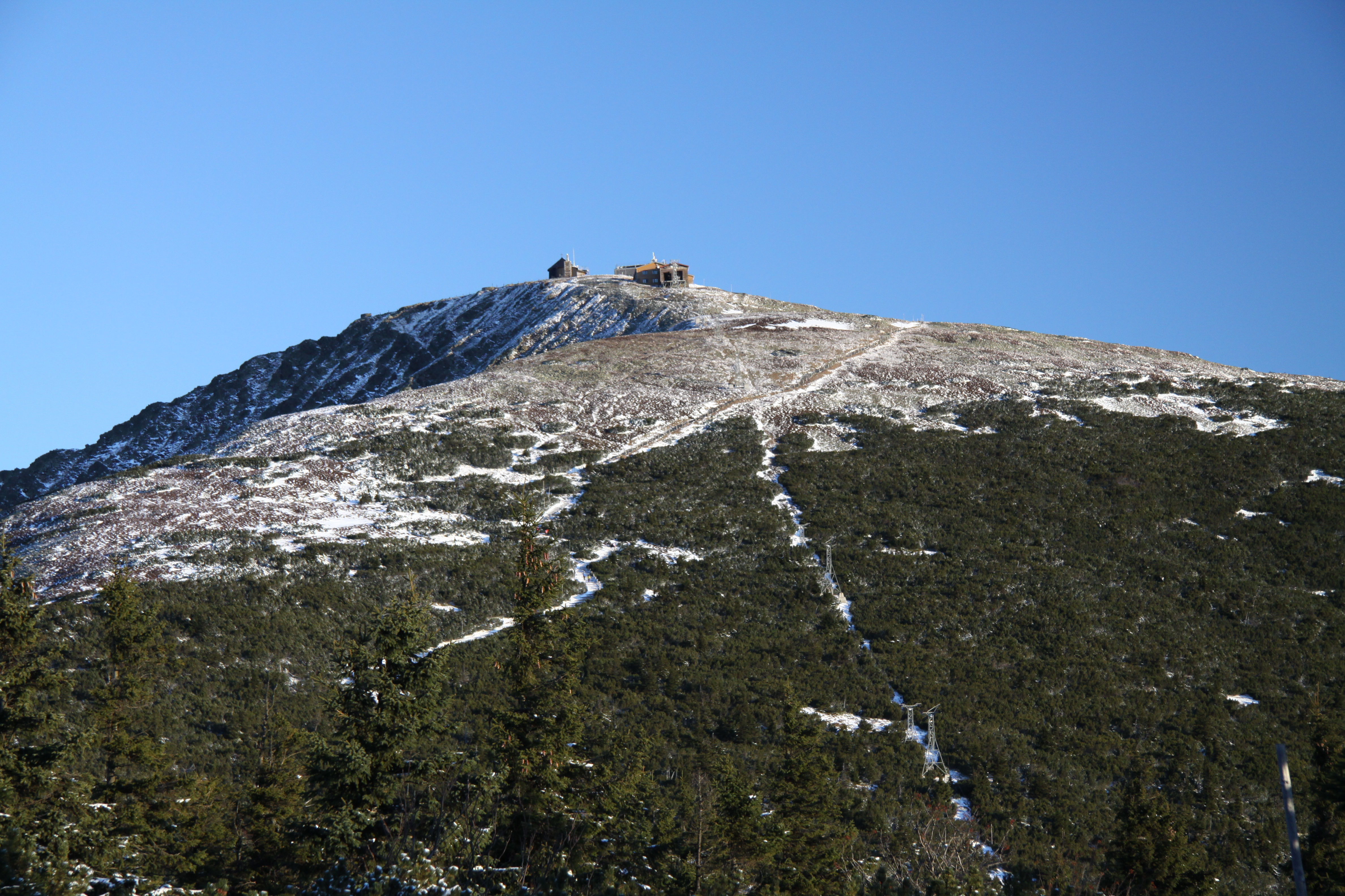 Sněžka, Czech Republic